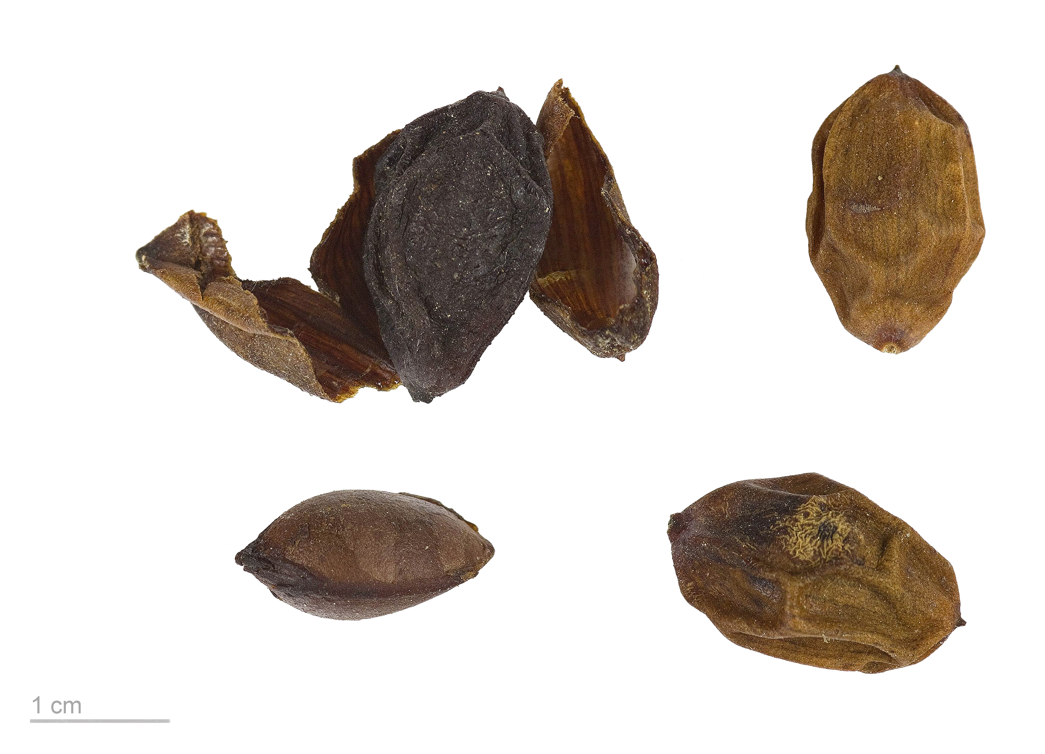 Chinese Plum Yew, fruits and seeds